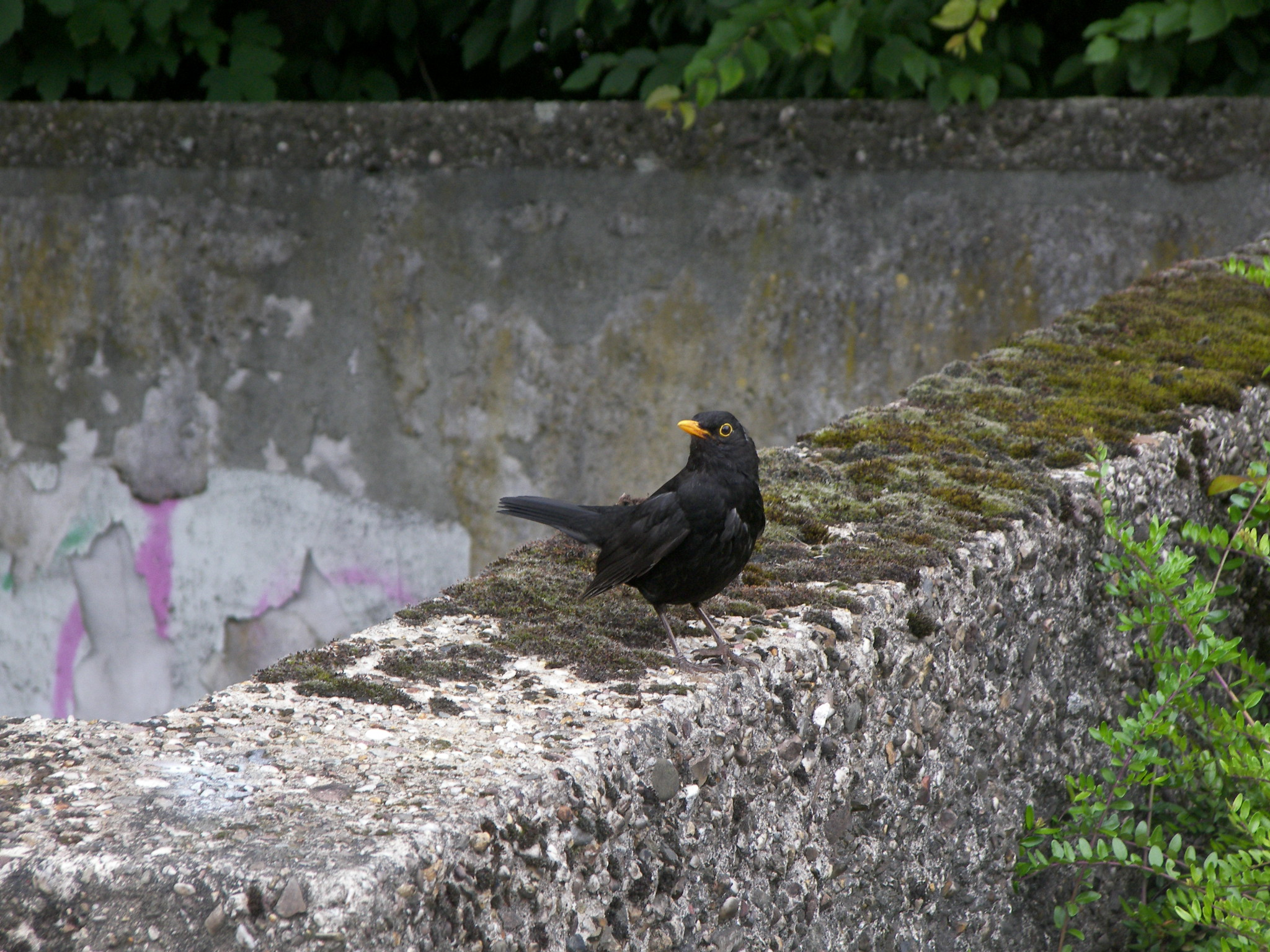 An adult Eurasian Blackbird taken near the Pontwall in Aachen, Germany